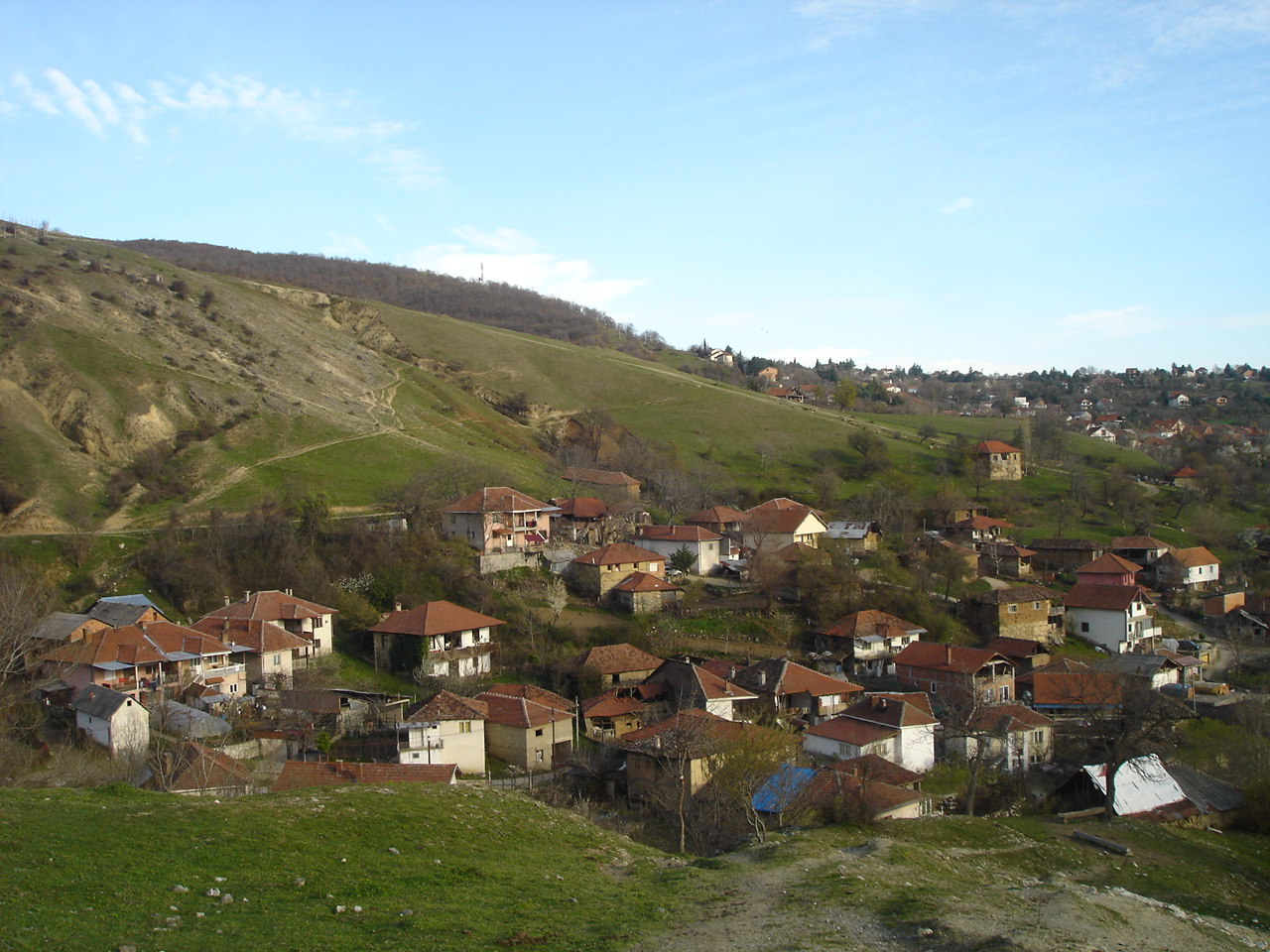 village of Ljubanci, Macedonia